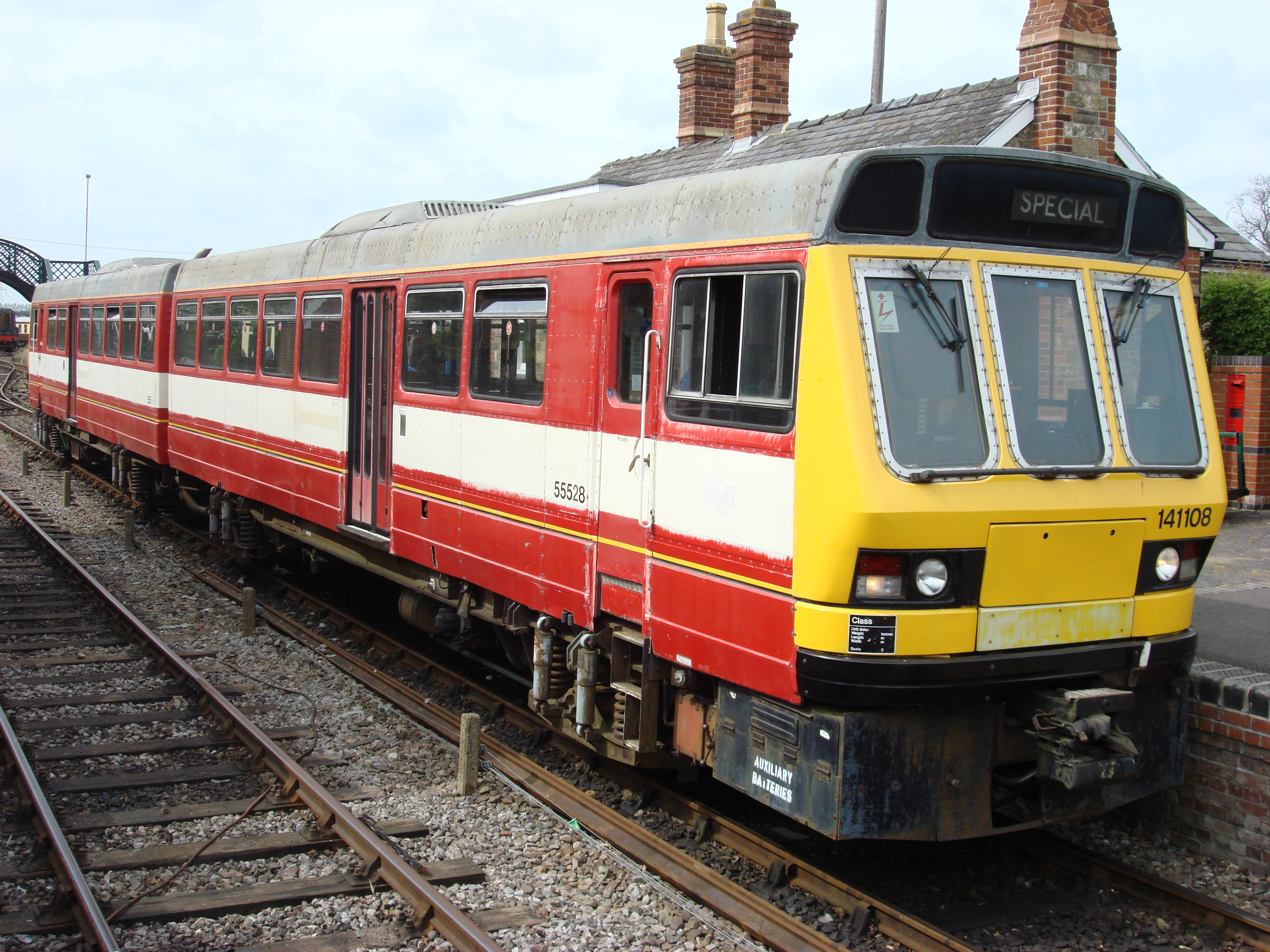 141108 at the Colne Valley Railway